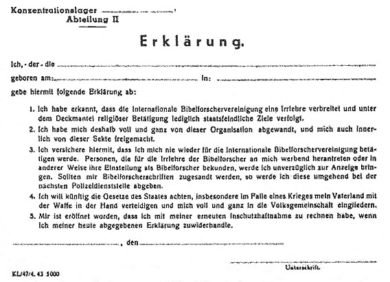 (Quoted from Jehovah's Witnesses--Proclaimers of God's Kingdom (1993), Watch Tower Bible and Tract Society of Pennsylvania, p. 661. Original.)